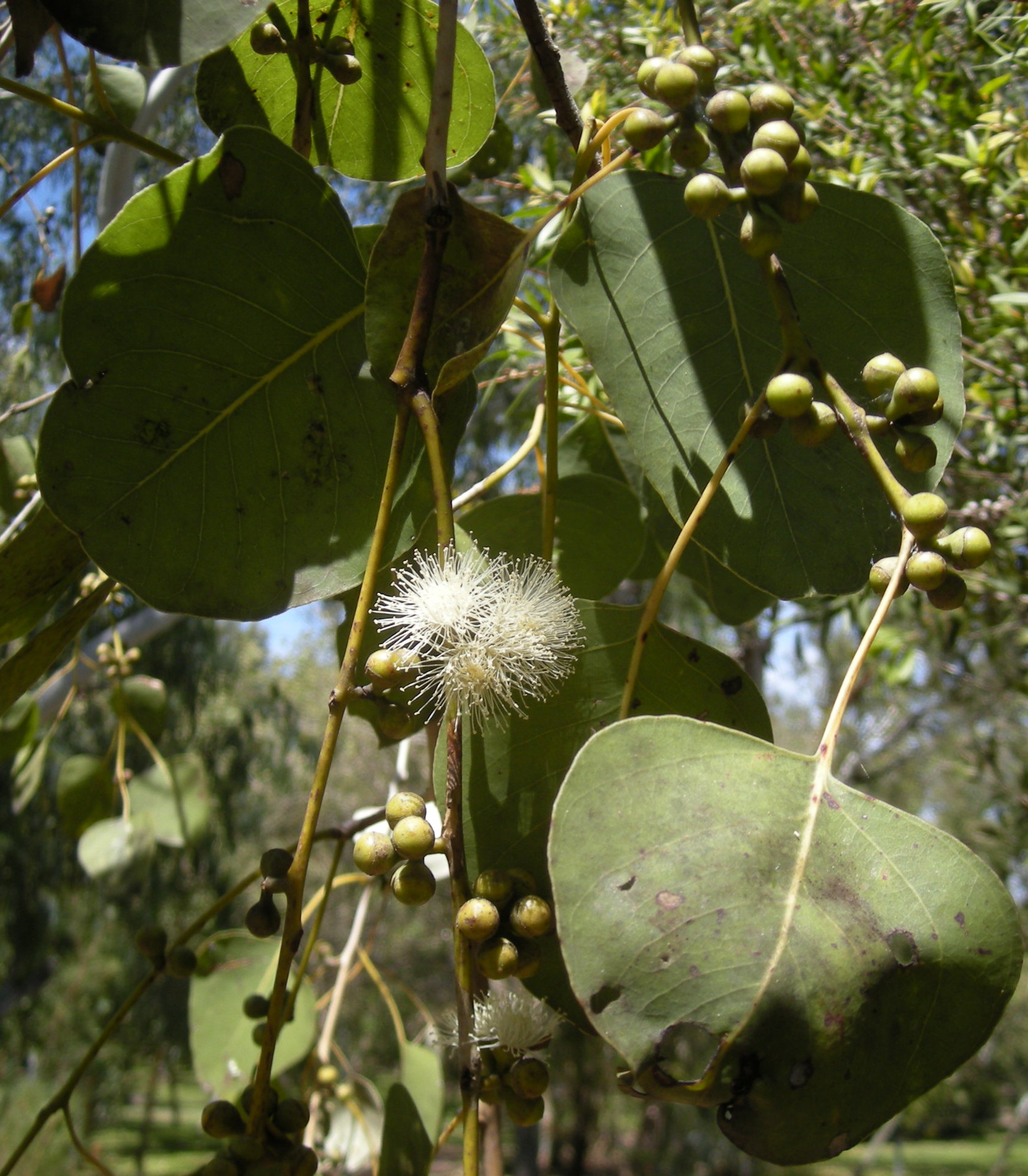 Eucalyuptus platyphyllaflowers foliage, Mount Archer National Park, Rockhampton